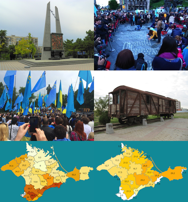 Derivative work of: File:КонецГЕНОЦИДУ - panoramio.jpg by salech hcelas on Panoramio - (copyrighted part is de minimis, see talk) File:2016 Memorial day of Deportation of the Crimean Tatars in Kyiv 15.jpg by User:Visem File:Rally Deportation of Crimean Tatars.jpg by User:kaktuse File:Isxodiwozwr1.jpg by User:Rartat File:Crimean Tatar 1939-num.png by User:Refat File:Crimean Tatar 2001-num.svg by User:Riwnodennyk